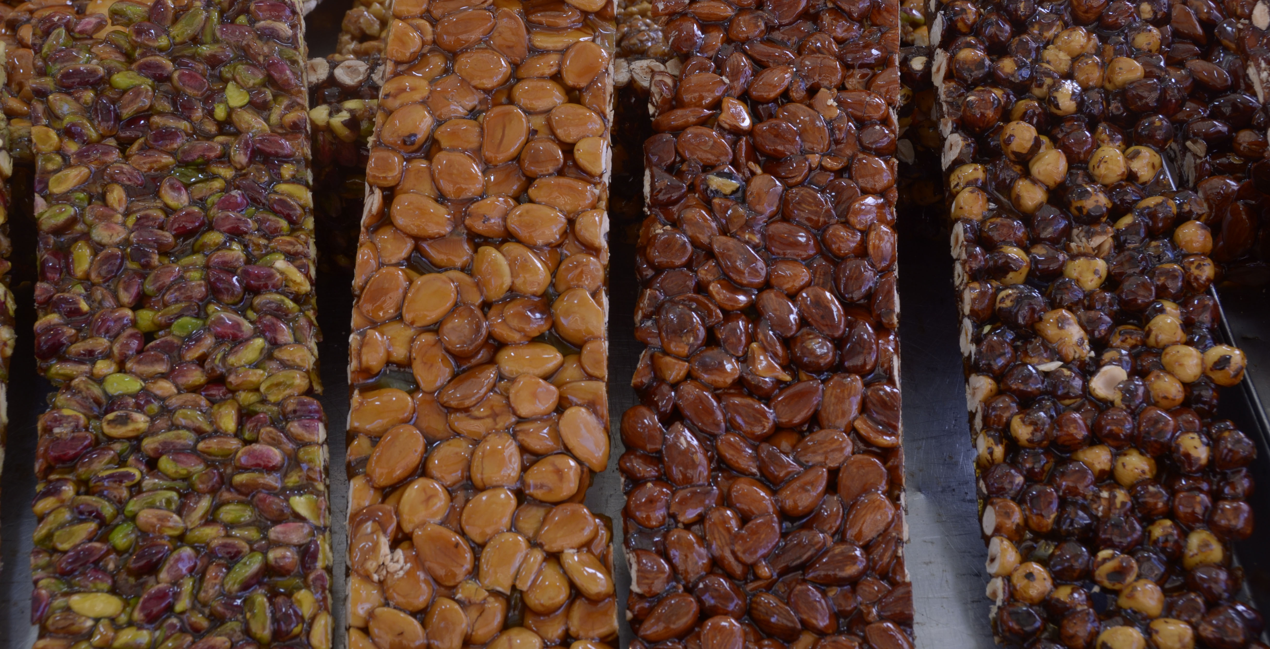 Shades of torrone. Catania – Italy.